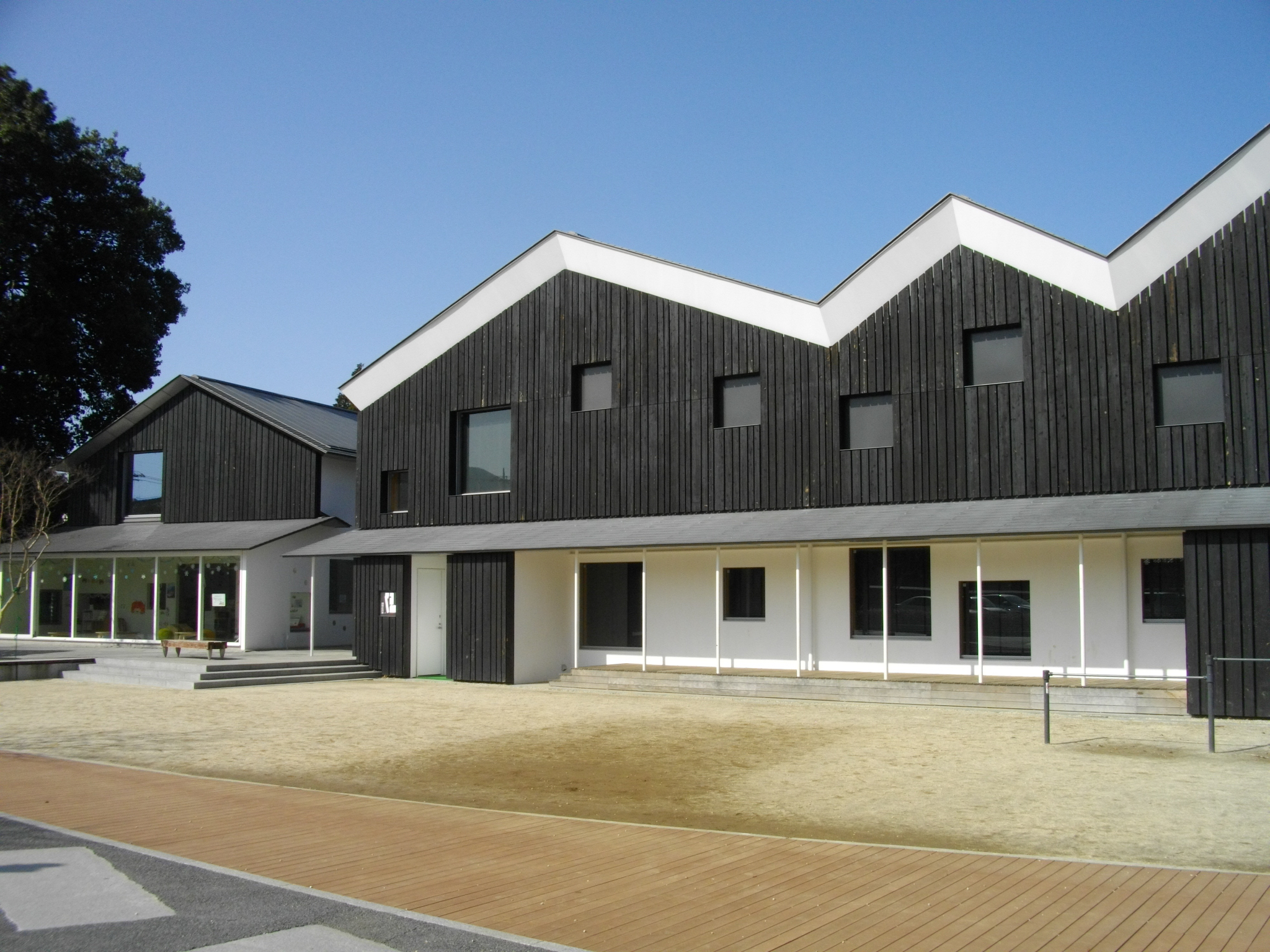 Makabe Denshokan